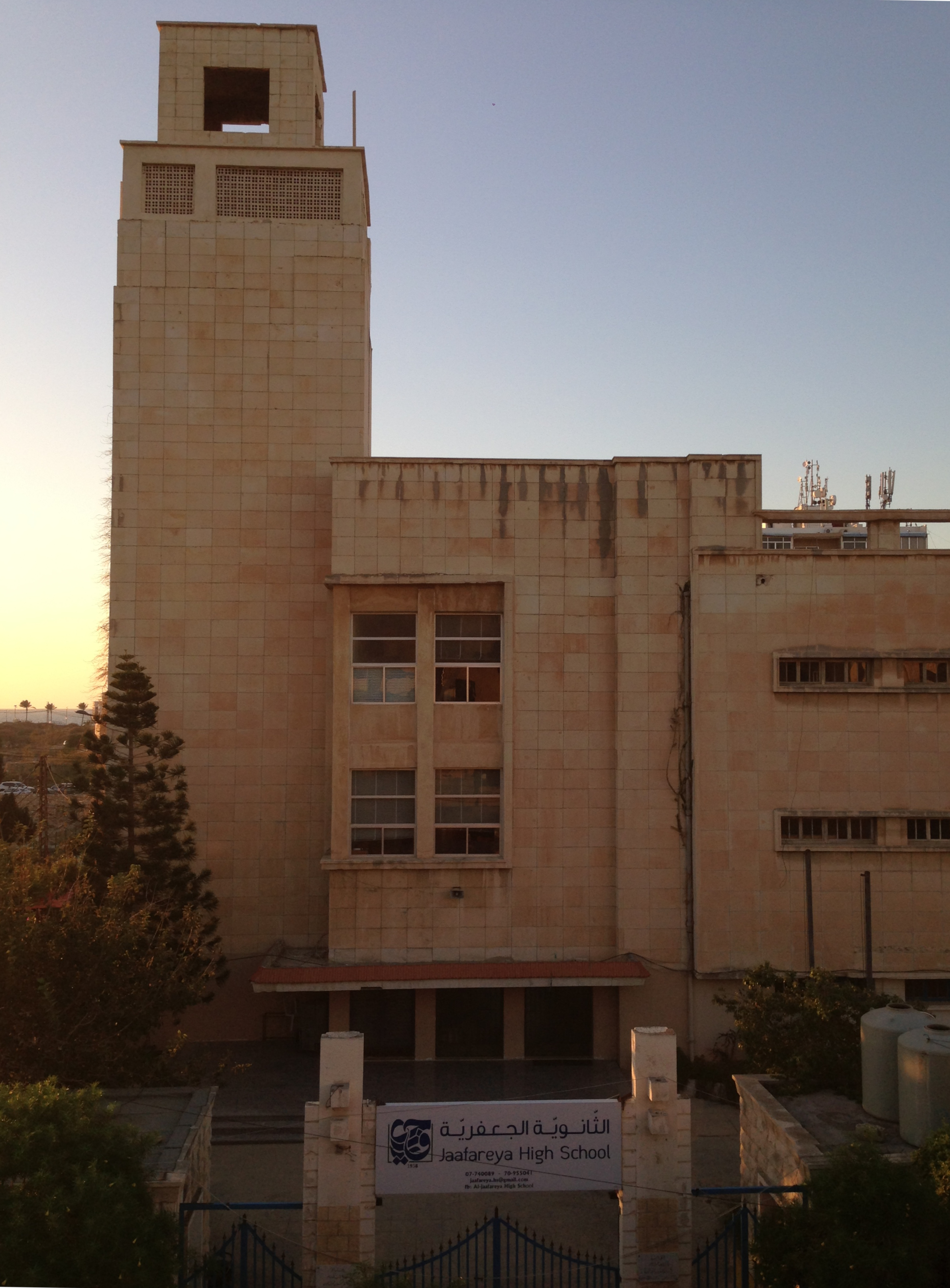 Tower and main entrance of the Jaafareya High School in the Southern Lebanese port city of Tyre. The institution was founded as a primary school for girls in 1937 by the Shia Imam Sayed Abdul Hussein Sharafeddine (1872-1957), who was a symbol of the resistance against the French occupation and chose the Imam Musa Sadr as his successor. Many of its teachers were refugees from Palestine. The pictured building is located in Jaafar Sharafeddine Street and overlooks the UNESCO World Heritage site of the Roman ruins in the Al Mina part of the ancient town with a view to the Mediterranean Sea. It was constructed in 1950 and called "Binaeit Almohager", meaning "Building of the Emigrants", since it was funded by locals who had emigrated to Western Africa as merchants. The founding director of the Secondary School in 1946, George Kenaan, was a Lebanese Christian. - This is according to Sayed Ali Sharafeddine, a grand-son of the founder and current director-general of the school, in an oral history interview at his office on July 4, 2019. Information still to be referenced with a print-published 2016 school chronicle awaiting translation from Arabic.